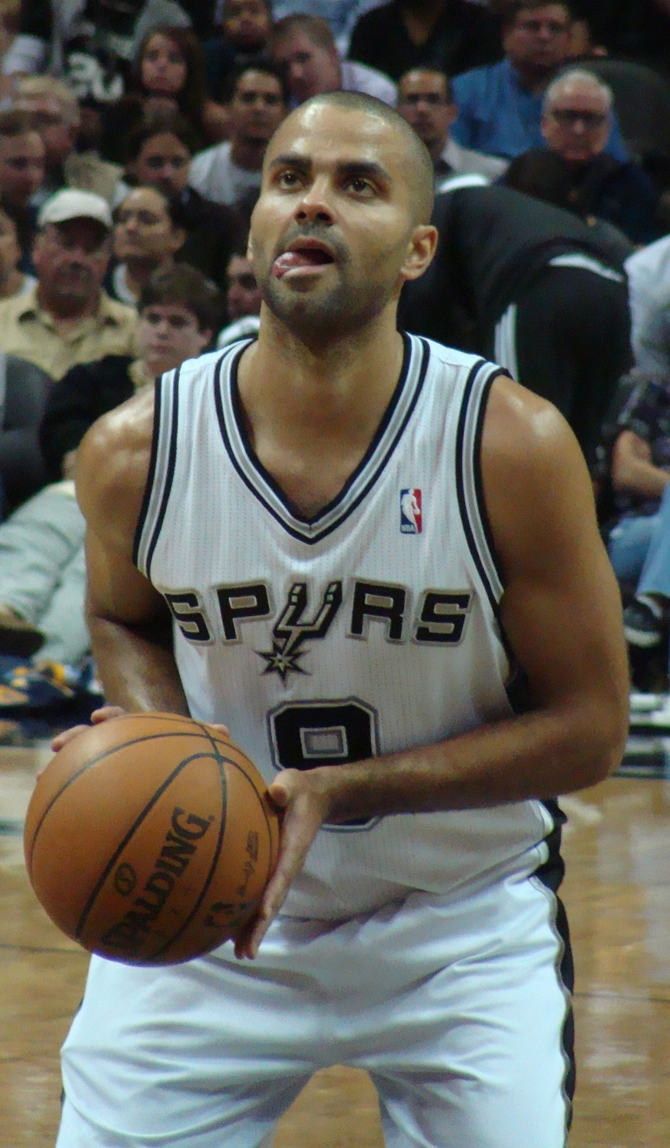 Tony Parker of the San Antonio Spurs, during the Spurs-Nuggets match on 12-22-2010 in San Antonio, TX.